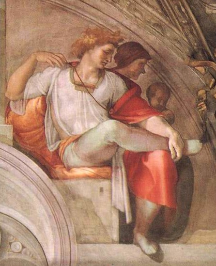 Sistine Chapel, fresco Michelangelo, one of Ancestors of Christ series. Location: entrance wall